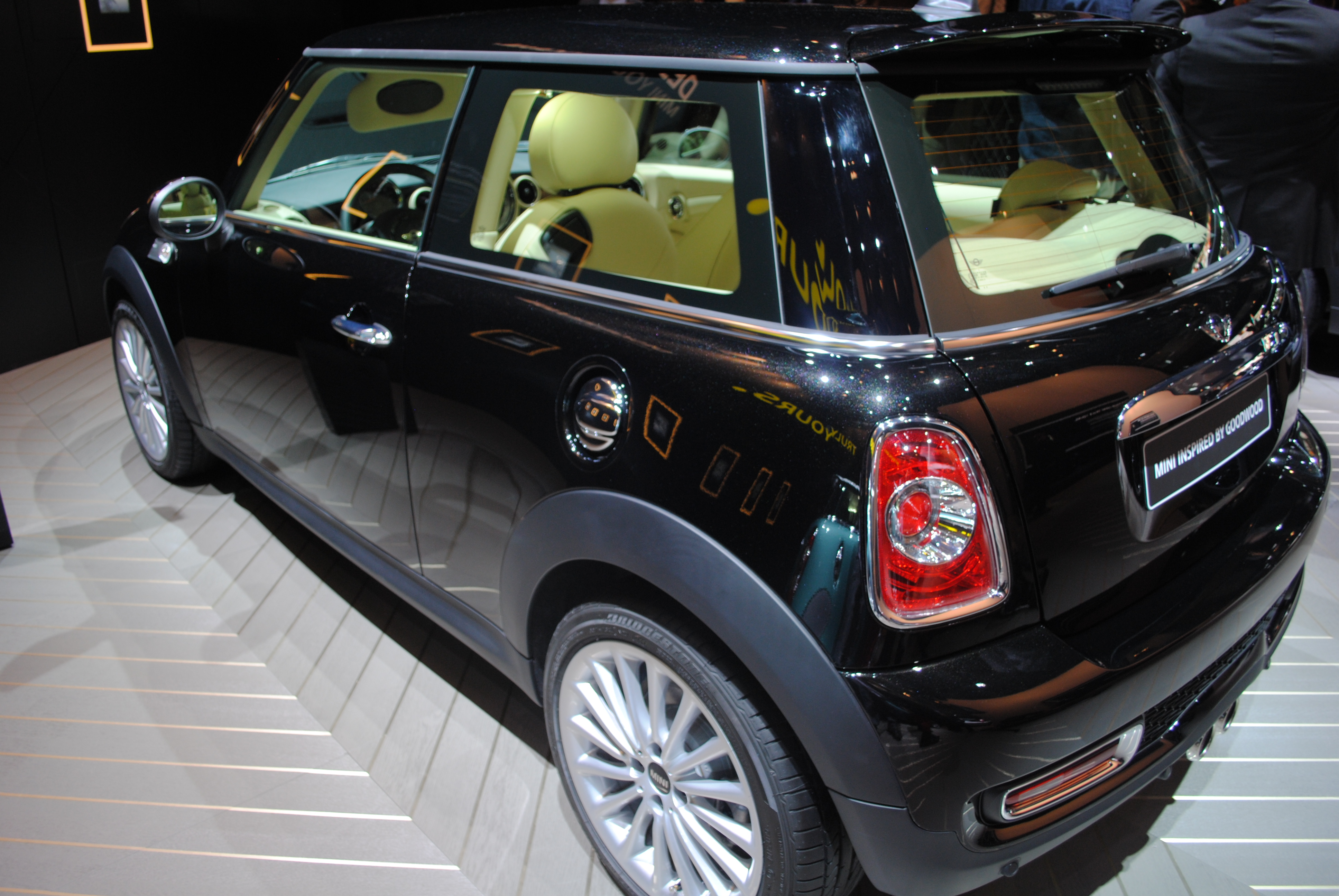 More photos and info